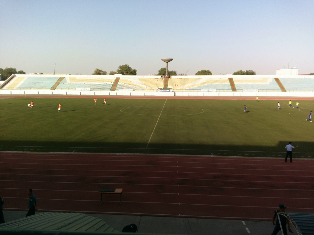 Turan stadium in Nukus, Uzbekistan